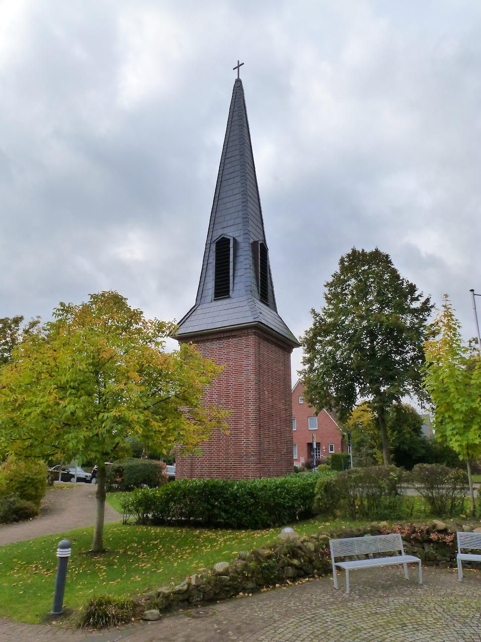 Christuskirche Hiltrup Turm